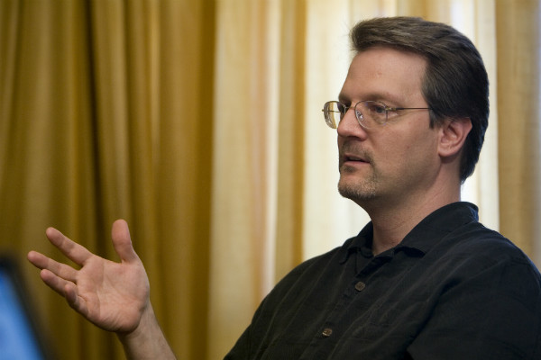 Marketing Author Perry Marshall